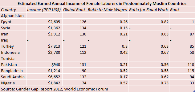 This graph shows the annual wages of women in purchasing power parity with U.S. dollars of female workers in 11 Muslim majority nations and the ratio of female-to-male workers in those nations.